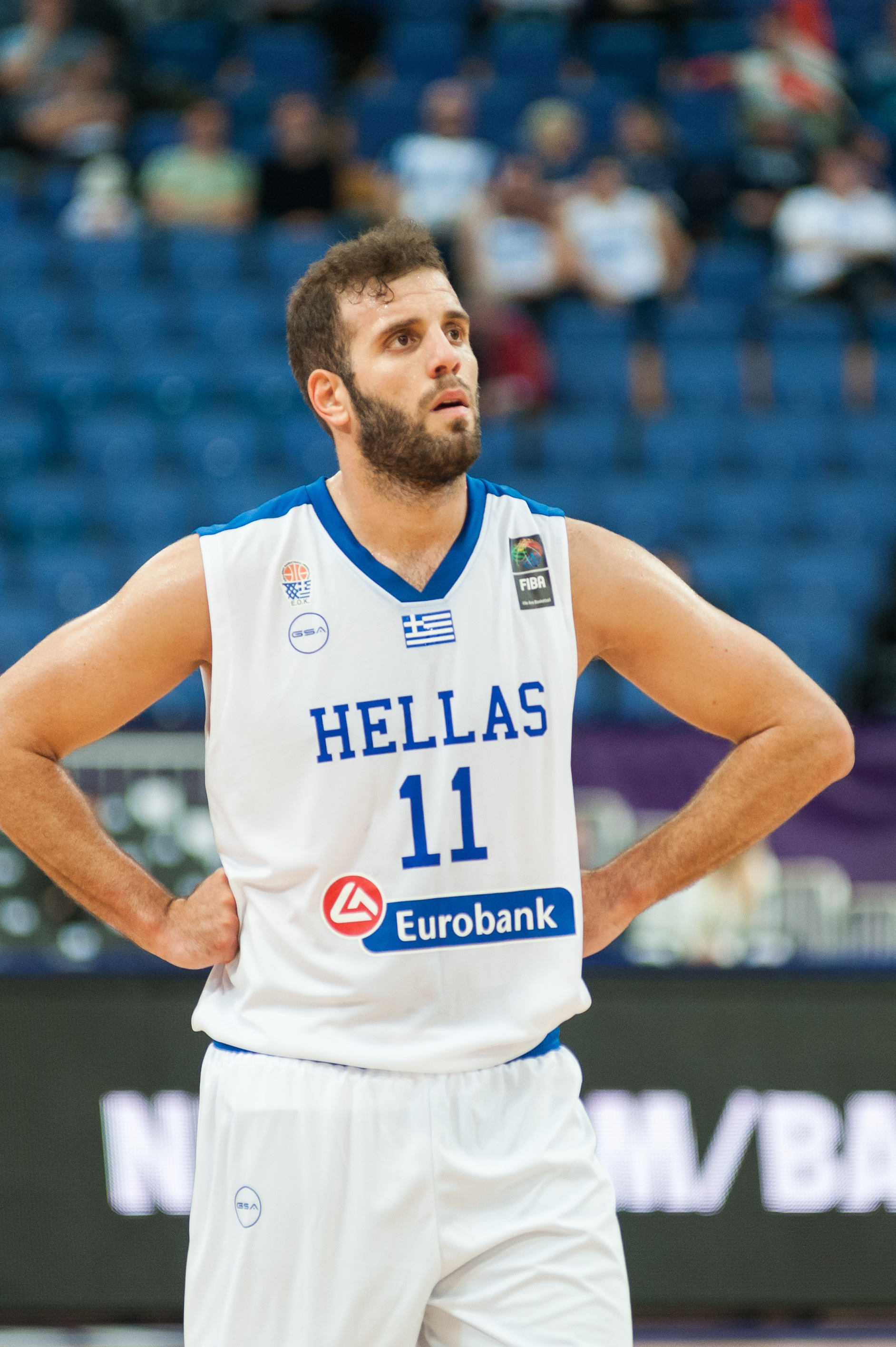 EuroBasket 2017 Group A game between Greece and France at Hartwall Arena in Helsinki, Finland.